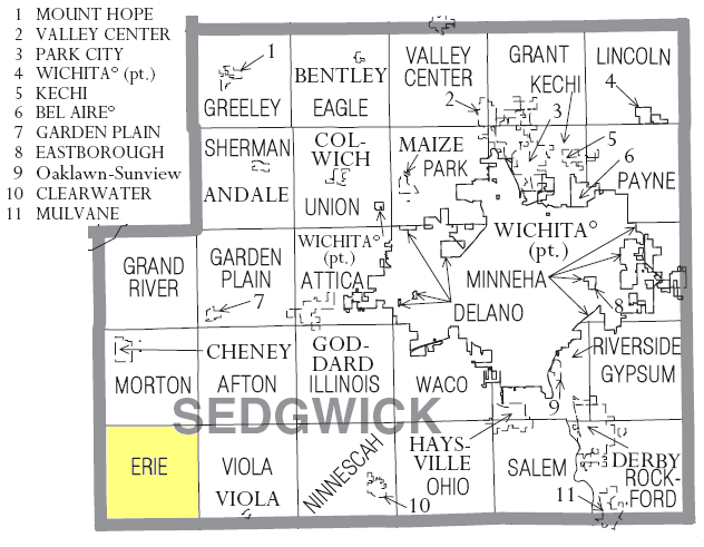 Map of Sedgwick County, Kansas highlighting Erie Township